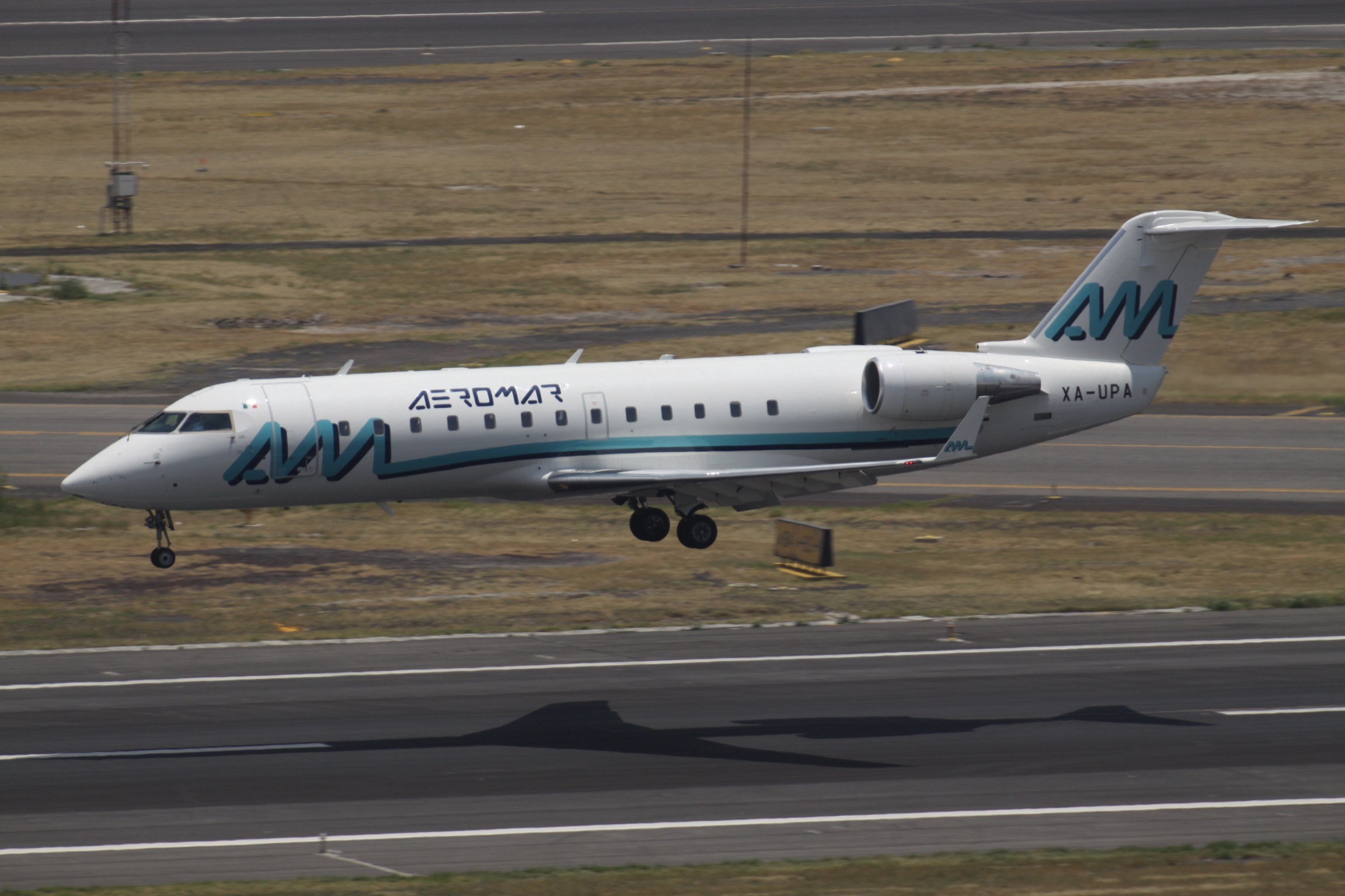 At Mexico City International Airport